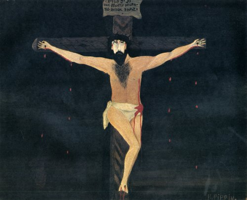 A depiction of Jesus Christ on the cross by Horace Pippin.